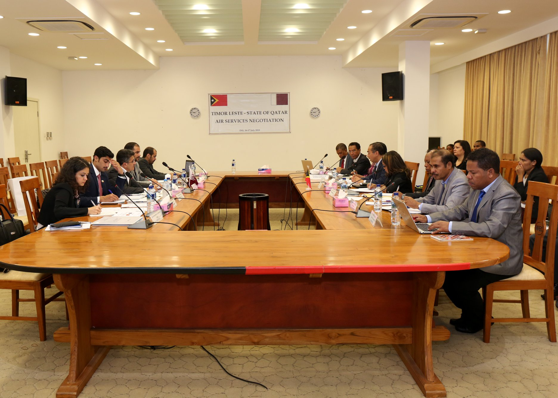 Bilateral Discussion on Air Service Agreement Between The Democratic Republic of Timor-Leste and The State of Qatar. The first bilateral discussion was held in Dili, Democratic Republic of Timor-Leste (T-L) between the Aeronautical Authorities of the Democratic Republic of T-L and the State of Qatar, on the dates of July 16-17 2019 to conclude the Air Services Agreement (ASA) and the Memorandum of Understanding (MoU). This discussion from T-L sides leaded by Ambassador Isílio Coelho, the Director–general for Bilateral Affairs in Ministry of Foreign Affairs and Cooperation, and Mr. Mohammed Faleh Al-Hajri, the Director of Air Transport Department in Qatar Airways. Both delegations from T-L and Qatar have agreed to finalize the ASA and MoU based on the liberalized approach at the next meeting to be held in Doha, the State of Qatar at earliest convenience. Venue: IED meeting room-MoFAC.